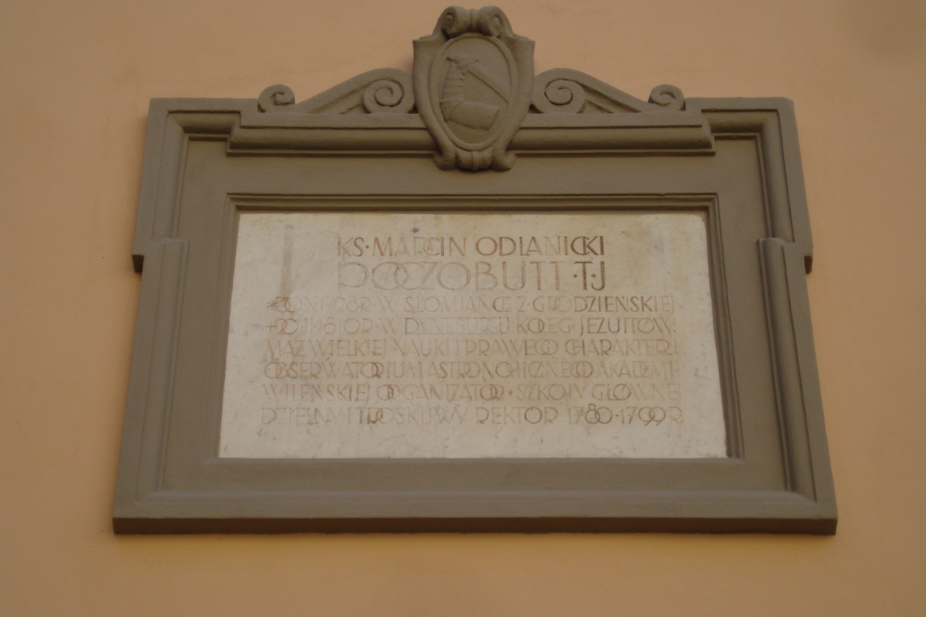 The plaque in memory of Polish-Lithuanian astronomer, jesuit and mathematician Marcin Odlanicki Poczobutt (1728–1810) in the Observatory Courtyard of the Vilnius University